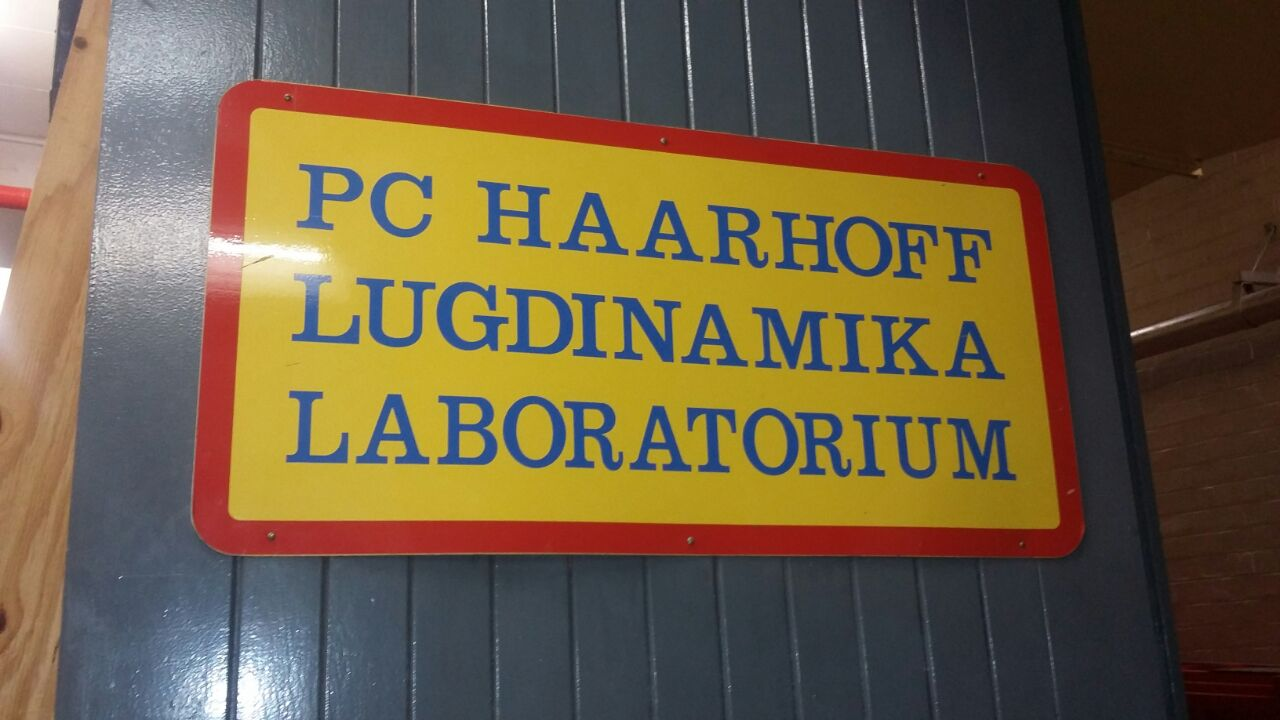 The aerodynamics laboratory located at the University of Pretoria named after P.C Haarhoff